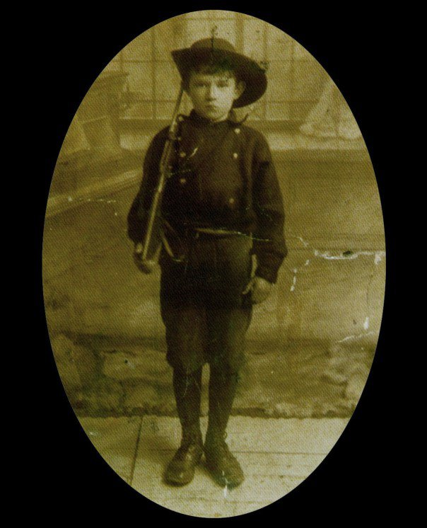 Fian Seán Healy, Na Fianna Éireann. Youngest casualty on the Republican side at 15 years old, 1916 Rising, Dublin, Ireland